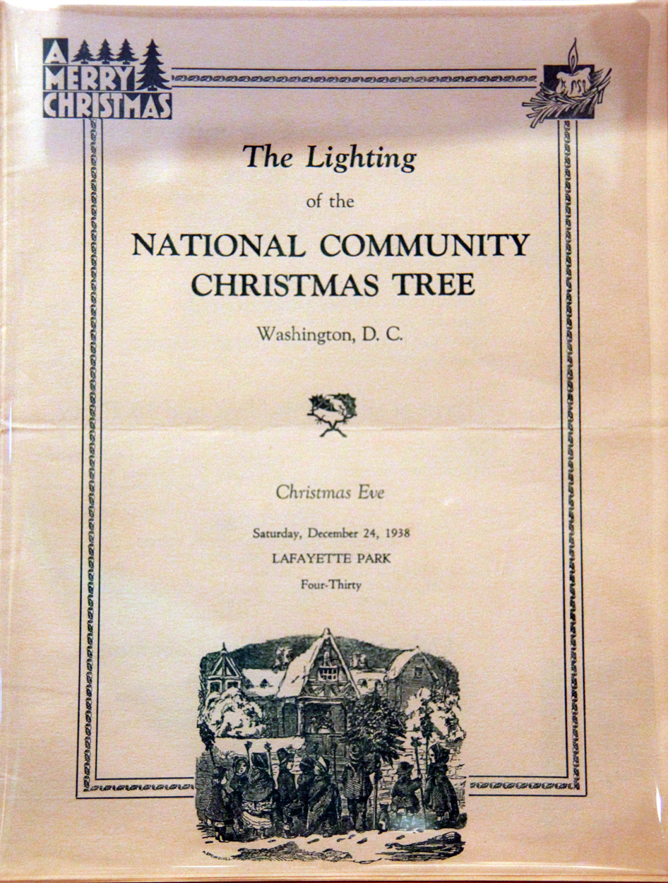 The program from the lighting ceremony for the 1938 National Community Christmas Tree. The United States first hosted a National Christmas Tree in 1923. At the time, it was a cut tree and erected in the center of The Ellipse. From 1924 to 1933, a live tree was planted in Sherman Square (south of the U.S. Department of the Treasurer Building). In 1934, two live Fraser fir trees were planted in Lafayette Square. The trees alternated as the National Christmas Tree (to help reduce damage to the trees from the heavy ornaments and lights). The last time they were used was 1938. In 1939 and 1940, two red cedar trees were temporarily moved to the north edge of The Ellipse. In 1941, two Oriental spruce trees were planted on the South Lawn of the White House, and again used in alternative years as the National Christmas Tree. Cut trees were again used beginning in 1954, and the tree was moved to the north edge of The Ellipse again. The cut tree was replaced with a live tree in 1973. It's been replaced several times, but a live tree has been used ever since.